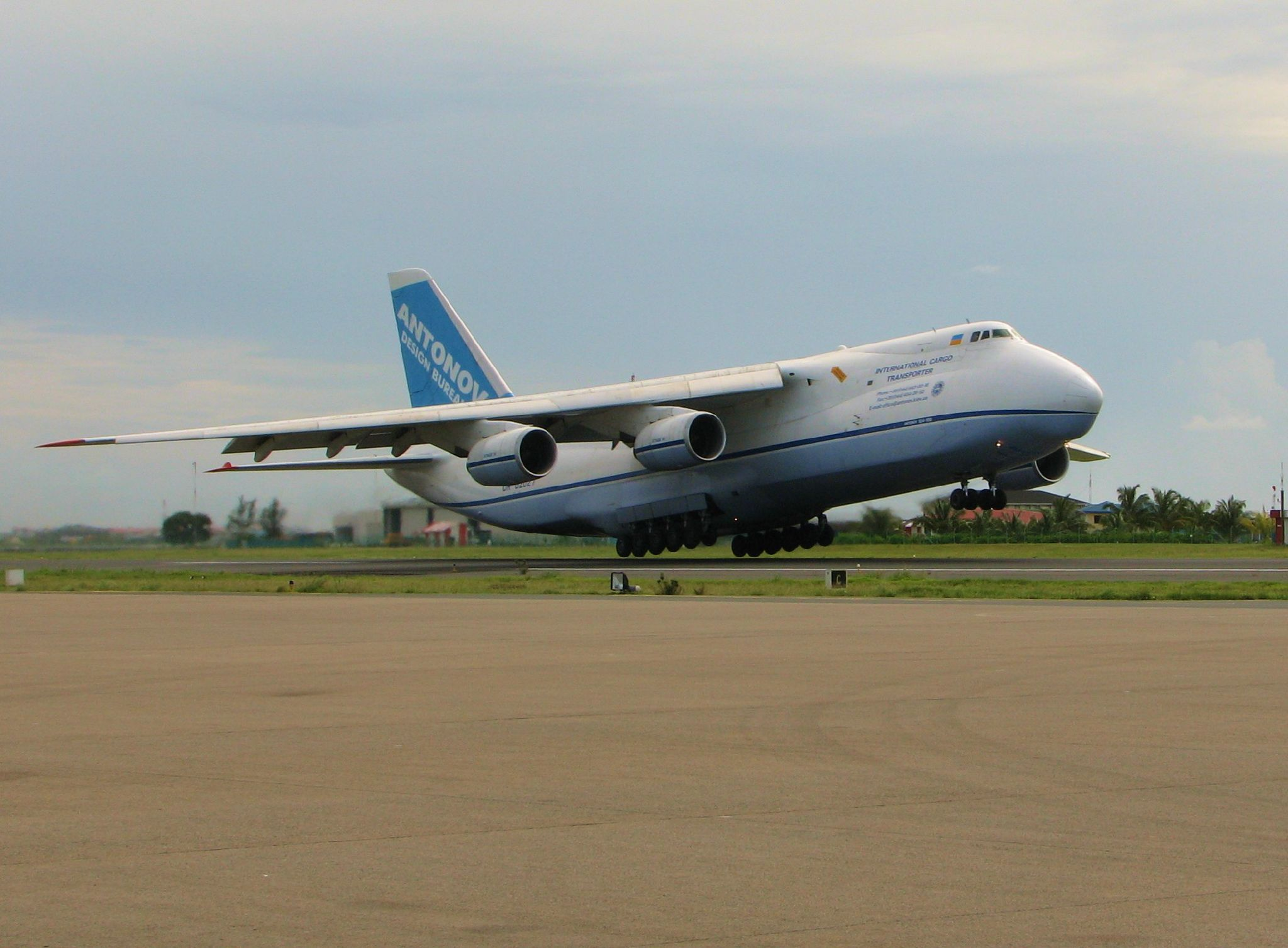 Antonov An-124-100 Ruslan, UR-82027, Antonov Design Bureau, Takeoff Runway 18, Male International Airport